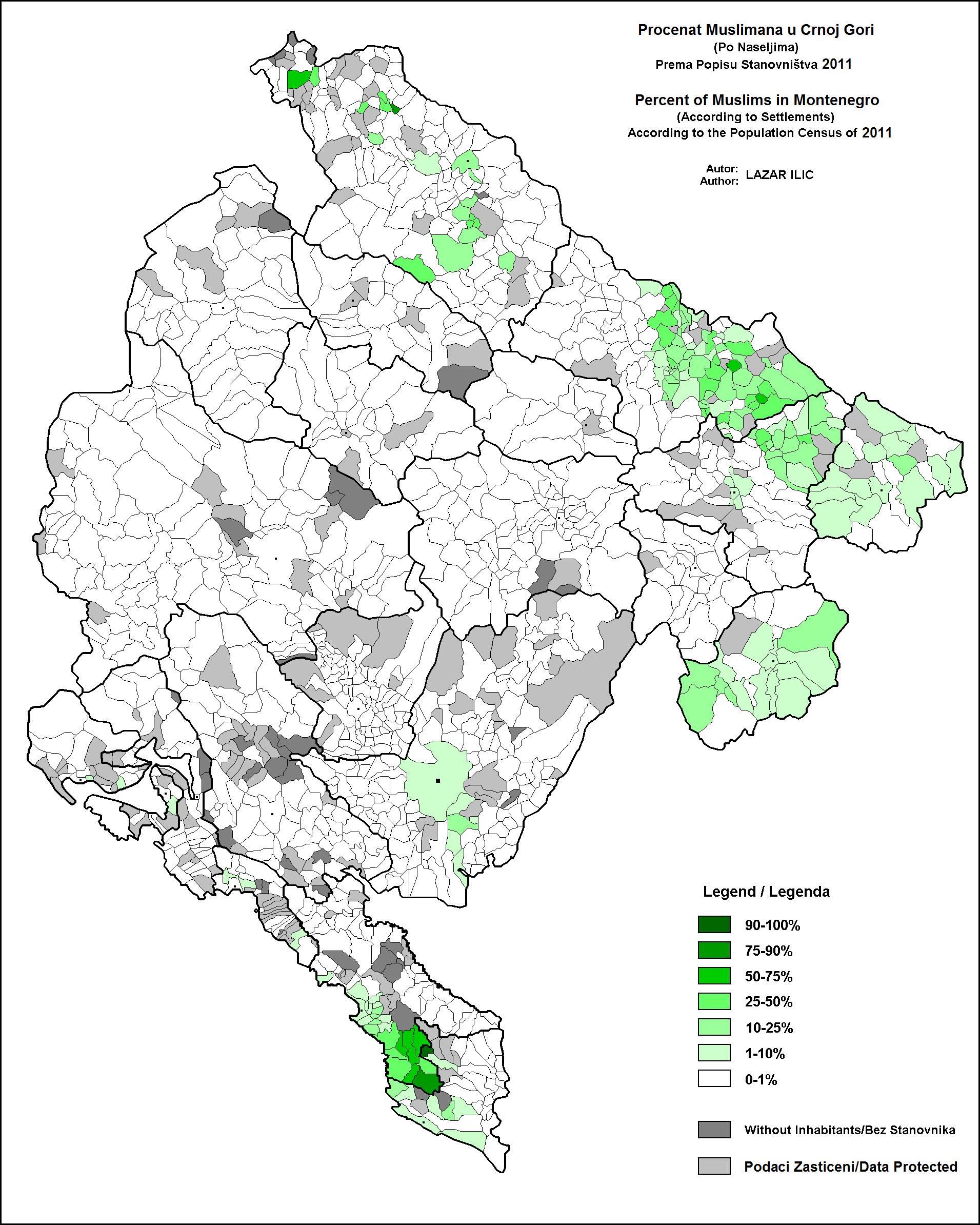 This is an ethnic map of Muslims (by nationality) in Montenegro, according to the 2011 population census. The map is according to settlements.